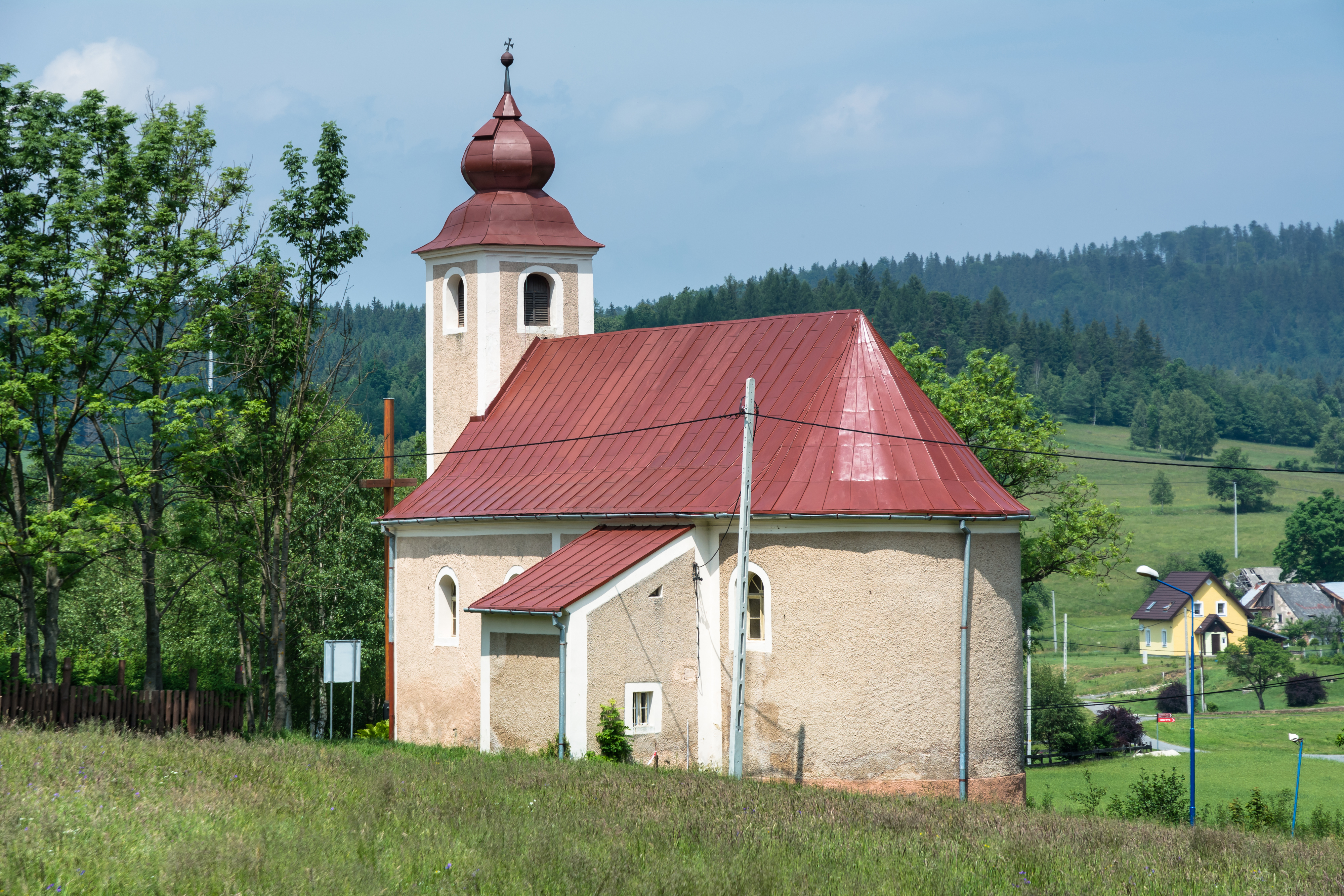 Church of Archangel Michael in Stary Gierałtów